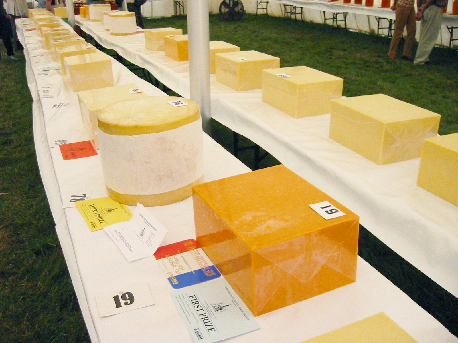 Summary A selection of local cheeses on display at the Mid-Somerset Show, an agricultural show held annually in Shepton Mallet, Somerset, UK. Competitions are held in livestock, handicrafts, farm produce and equestrian events. The Cheddar cheeses on display here are judged on their taste, texture and colour before prizes are awarded. Although most of the entries are cuboid, a traditional cylindrical 'truckle' can be seen, created in a round wooden pot. Picture taken by wurzeller on 17 Aug 2003 and released under terms of the GFDL licence. 18:04, 31 January 2006 Wurzeller 1600x1200 (787091 bytes) (A selection of local :en:cheeses on display at the :en:Mid-Somerset Show , an :en:agricultural show held annually in :en:Shepton Mallet , :en:Somerset , :en:UK . Competitions are held in livestock, handicrafts, farm produce and equestria)